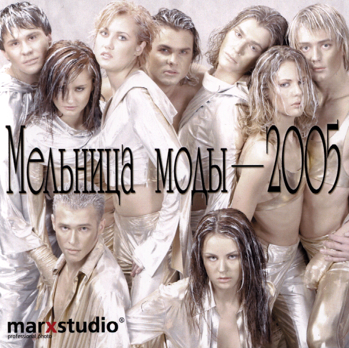 poster of Mill of fashion festival. 2005 AD